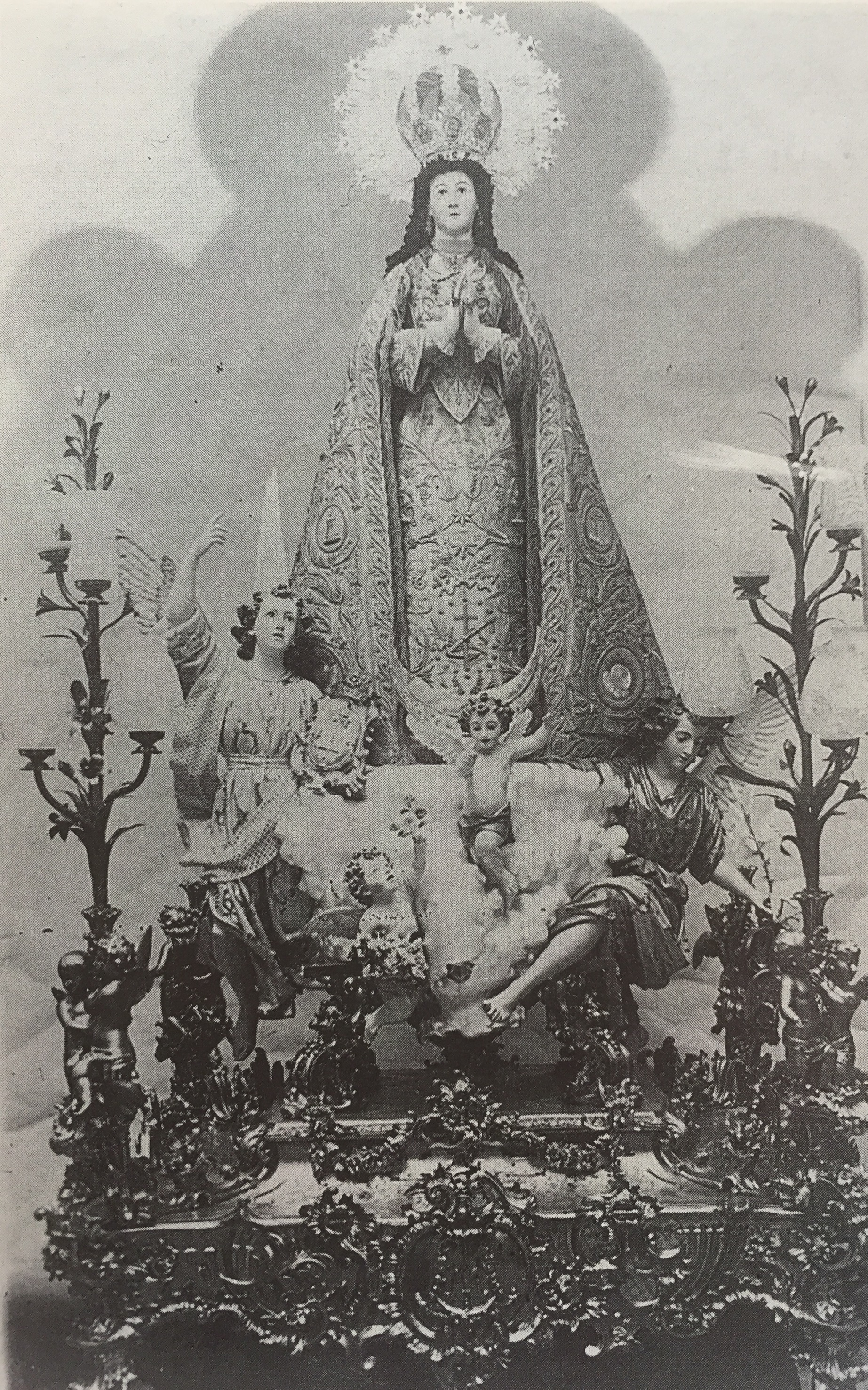 Virgin Mary, Liria, Valencia, Spain - 20's